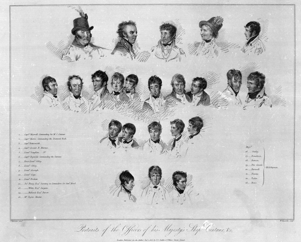 Picturesque Views of the Diamond Rock....\n Portraits of the Officers of his Majesty's ship Centaur, &c (with key)